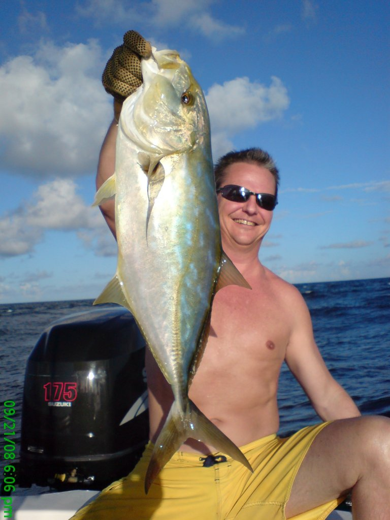 Andre holding a Yellow Jack caught 2 miles off Hillsboro Inlet, Florida